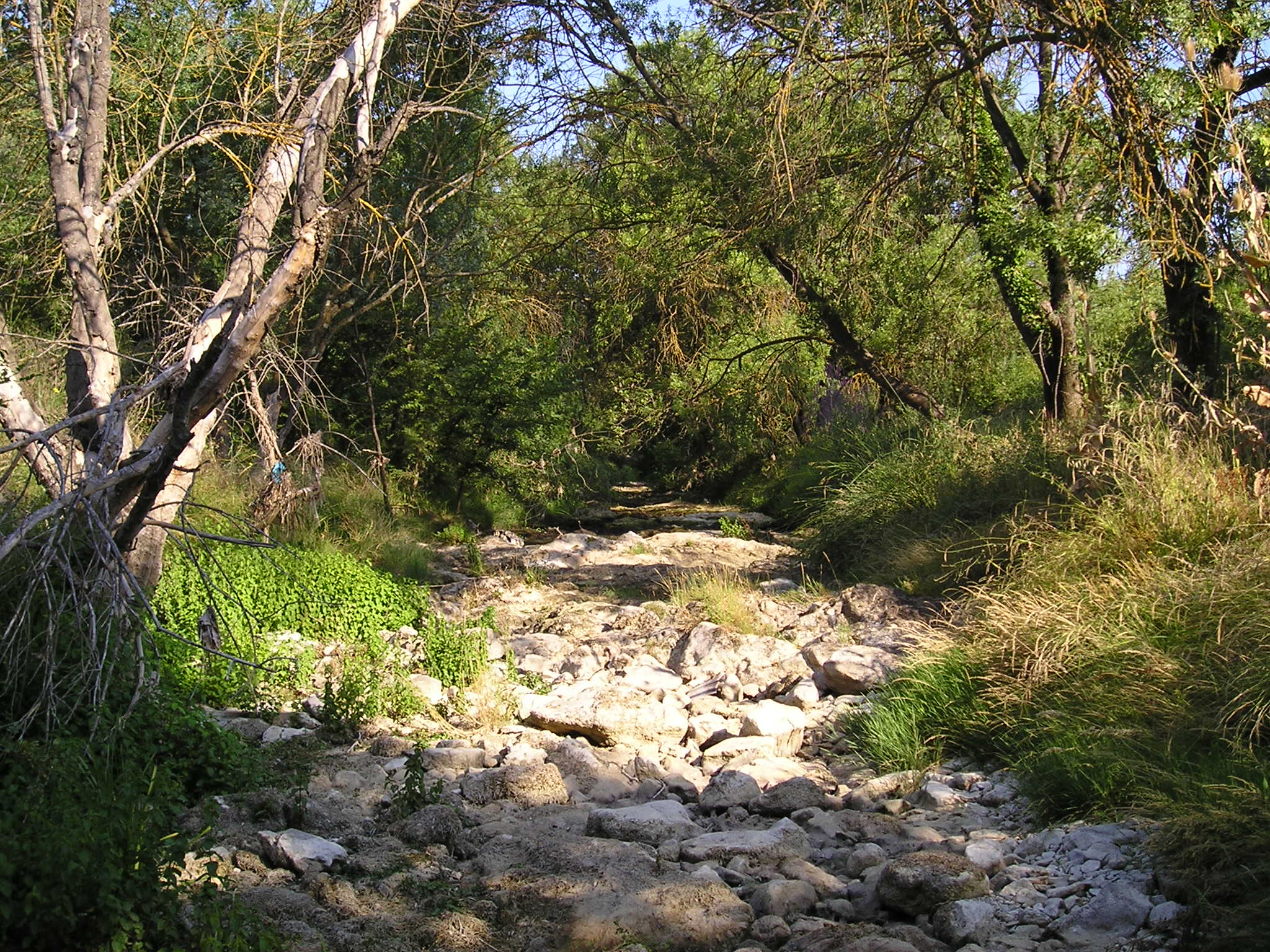 In Hérault, south of Castries and near Vendargues, the Cadoule river, dry in summer. View of the upstream turned to the North.